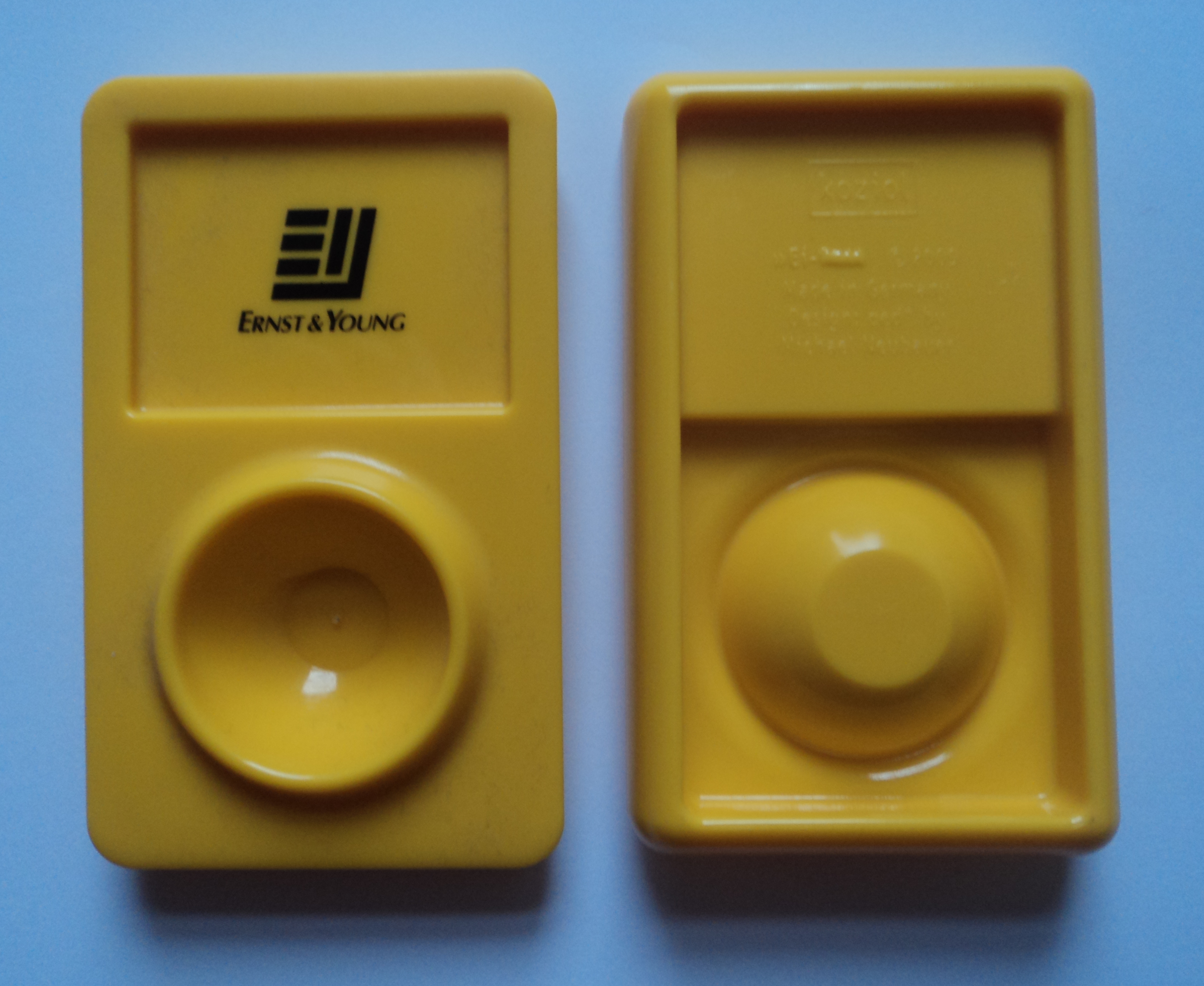 "Ei-Pott", produced by koziol, designed by Michael Neubauer (label Ernst & Young)